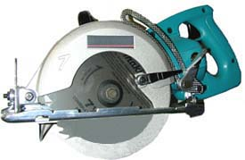 Photograph of a circular saw.